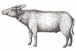 link] Category: Fauna of the Philippines